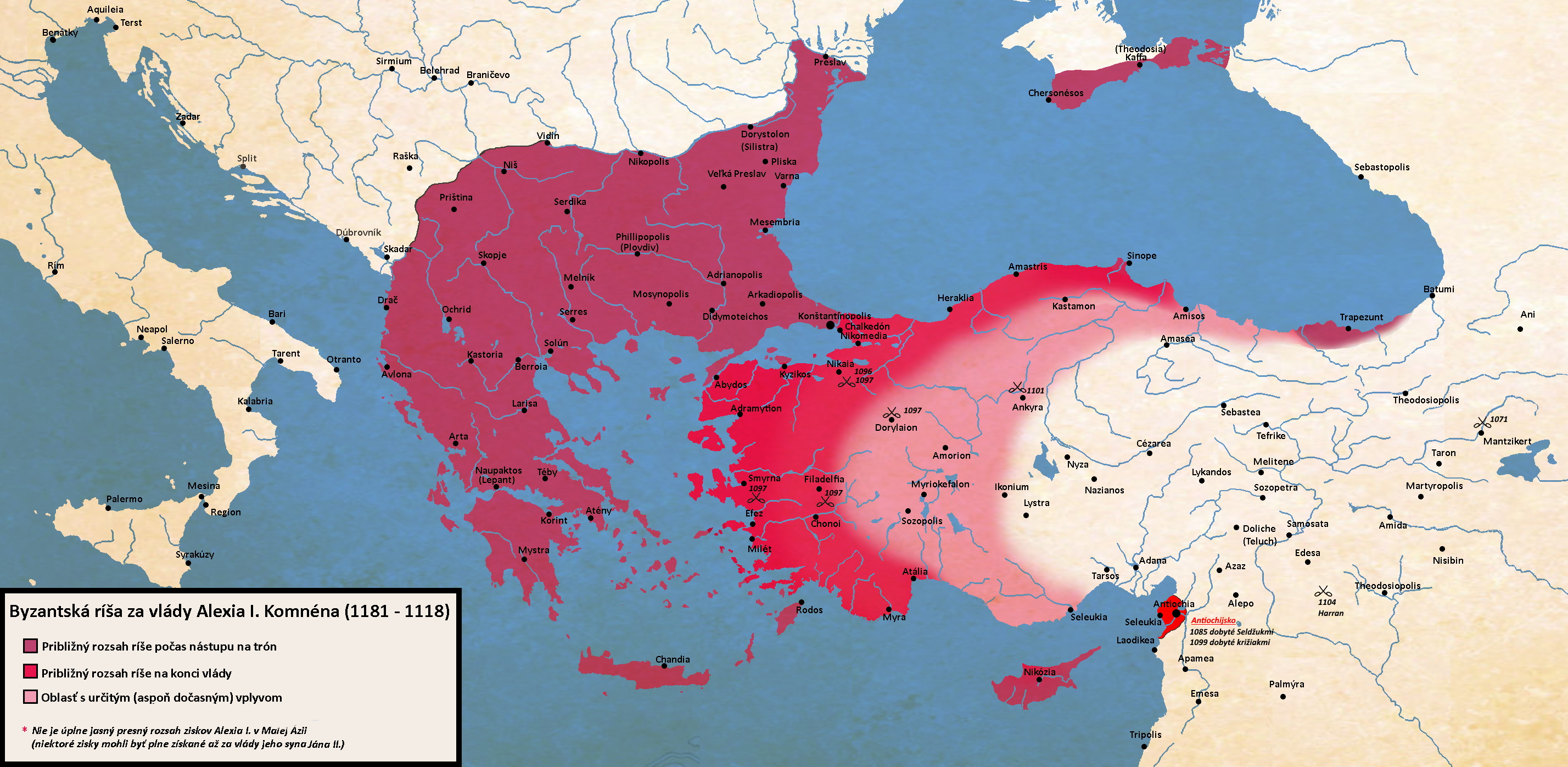 map of Byzantine empire during reign of Alexios I. (1081-1118)